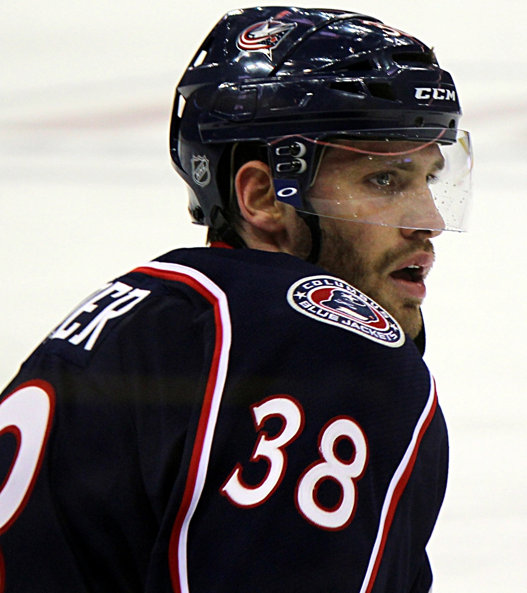 Columbus Blue Jackets forward Boone Jenner during a game against the Pittsburgh Penguins, December 13, 2014, at Nationwide Arena in Columbus, OH.